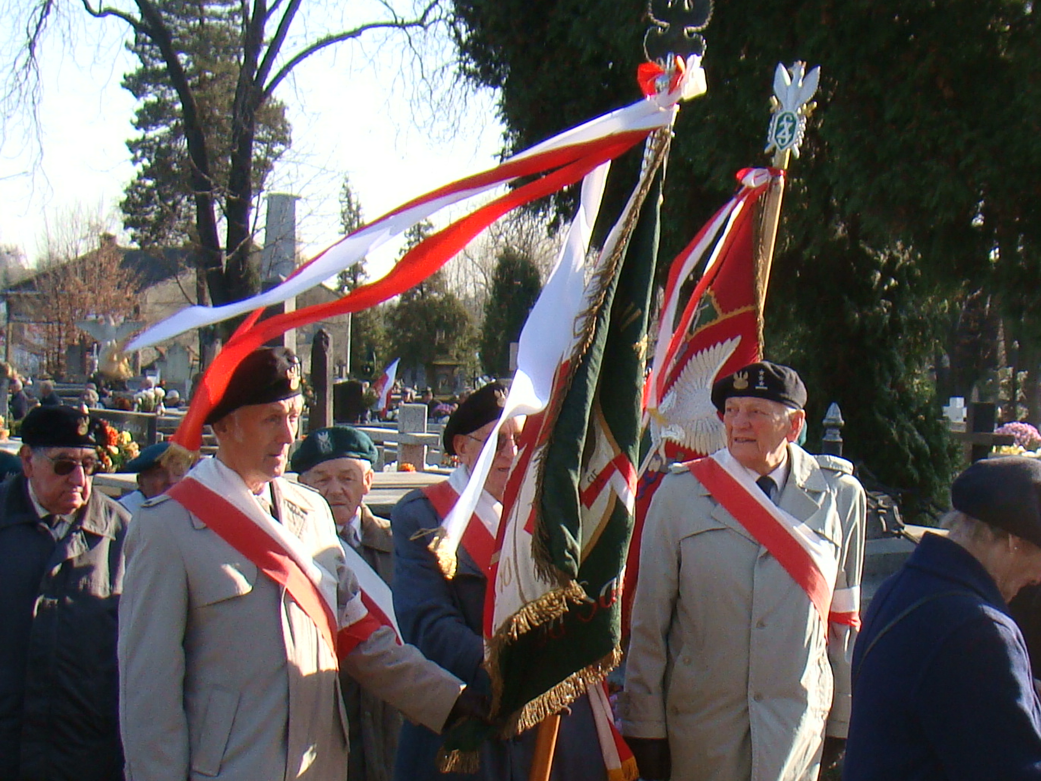 Polish resistance fighters. 2008. Sanok.